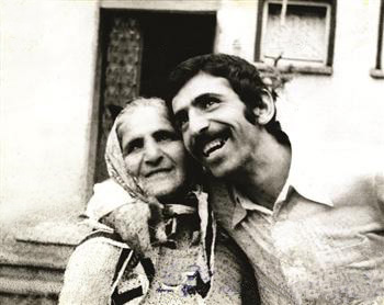 Ahmet Abakay along with his mother Hosana.